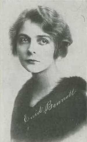 Movie trading card of Enid Bennett